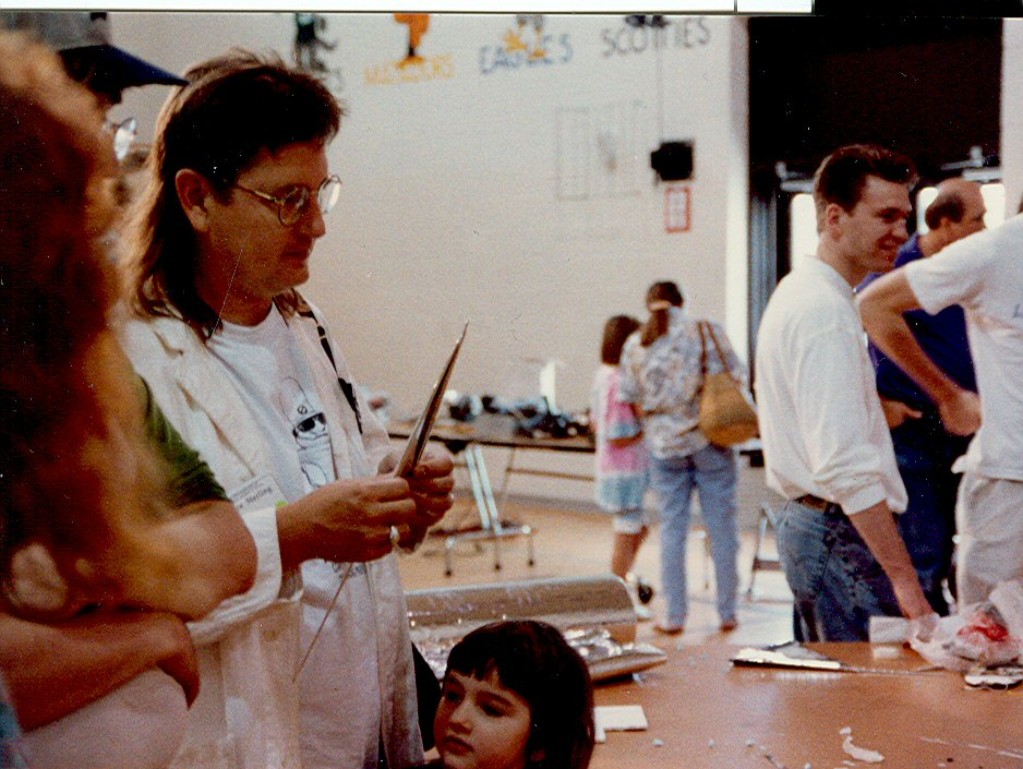 Image of Bruce Sterling at Robofest, probably shot in '94.Bruce Sterling at Robofest